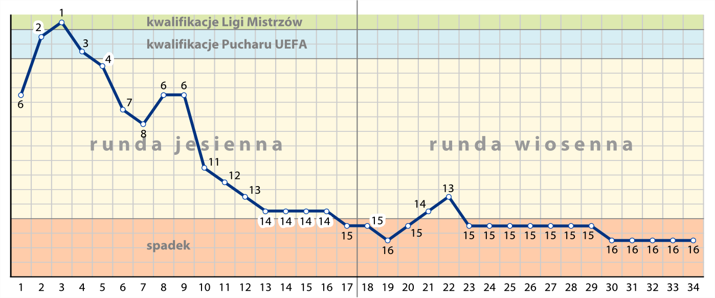 Graph showing performance of Lechia/Olimpia Gdańsk in 1995–96 Polish First League season.